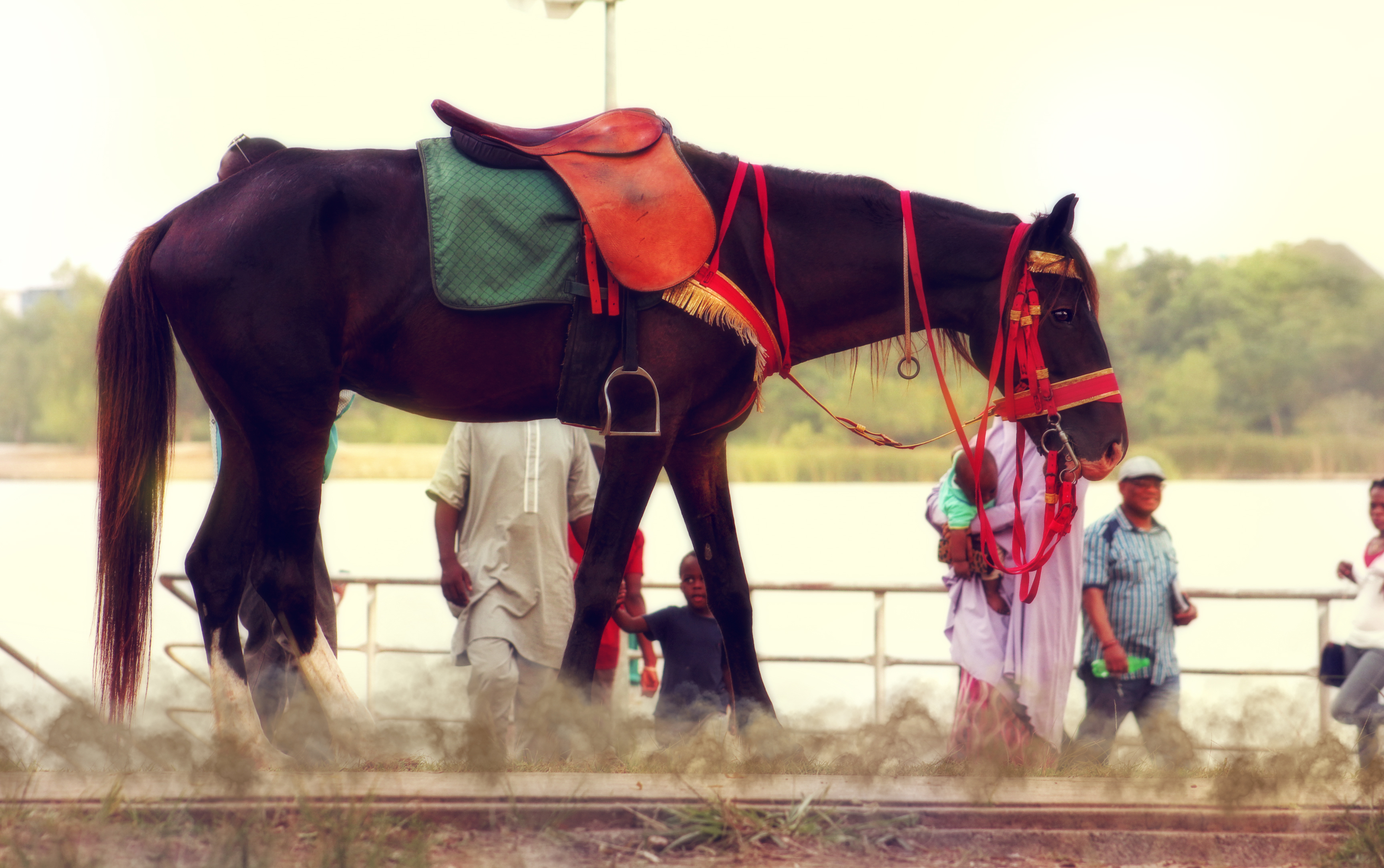 Jabi lake is a beautiful place filled with so much activities, yet i found a lonely horse all alone. This is an image of music and dance from Nigeria